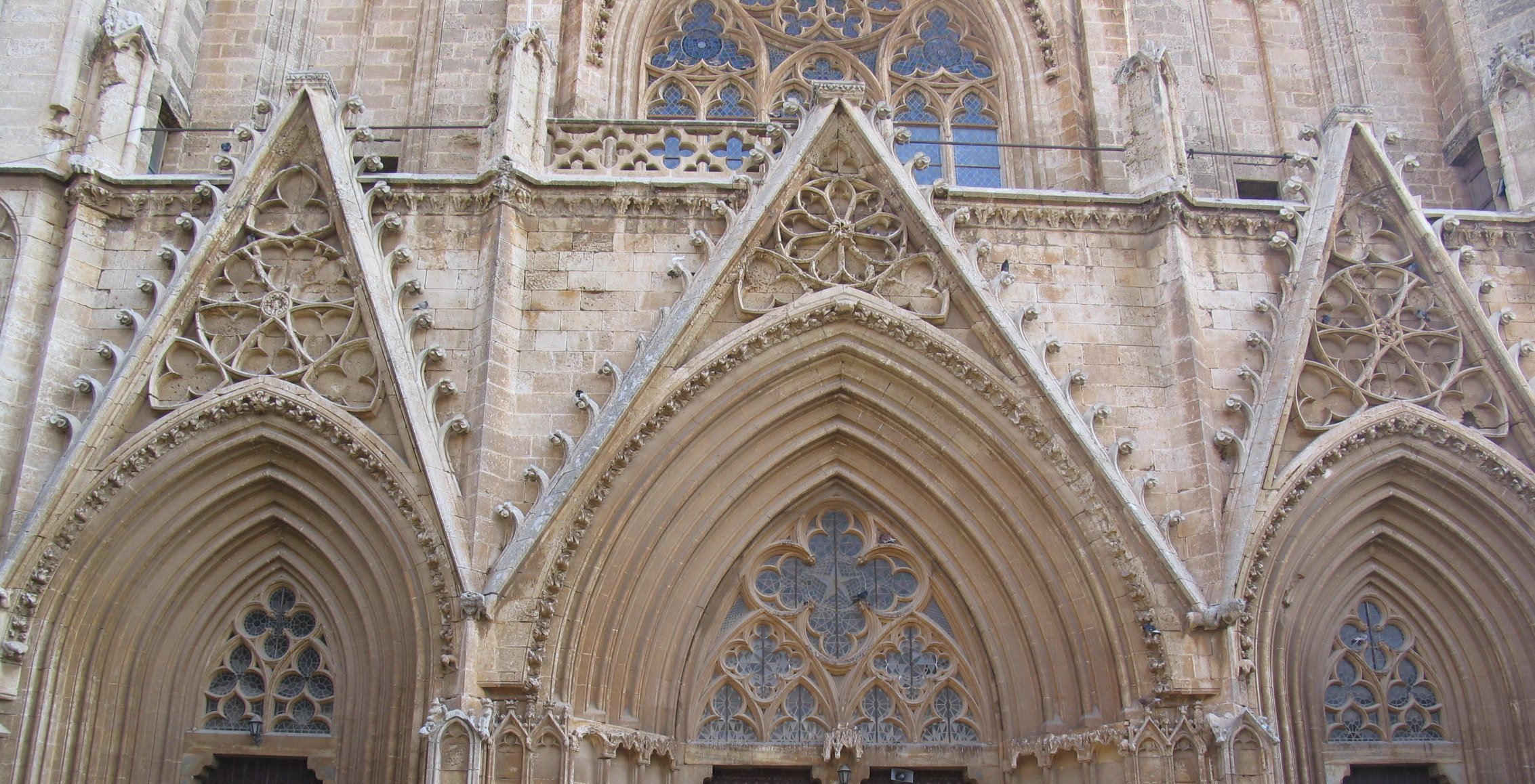 Picture Was Photographed By Daniel Attarian - Famagusta Cyprus - 22 Oct 2006